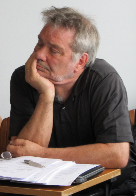 Pawel Bartoszek and Guðmundur Gunnarsson (2011)